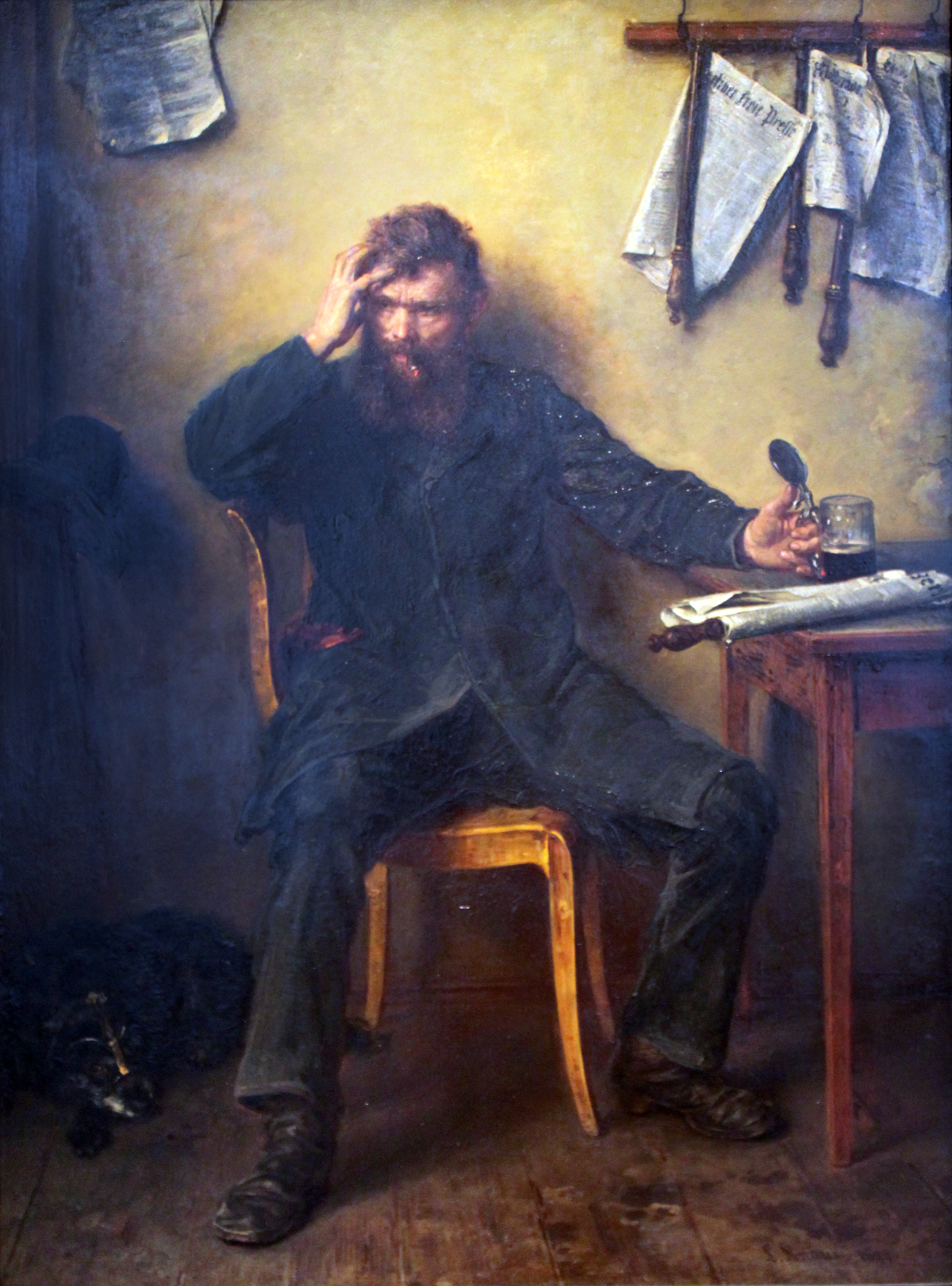 The Malcontent